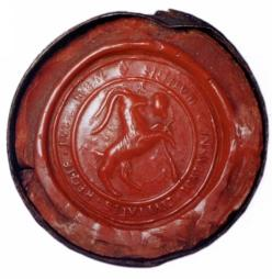 Seal of the Lublin City Council from 1535.